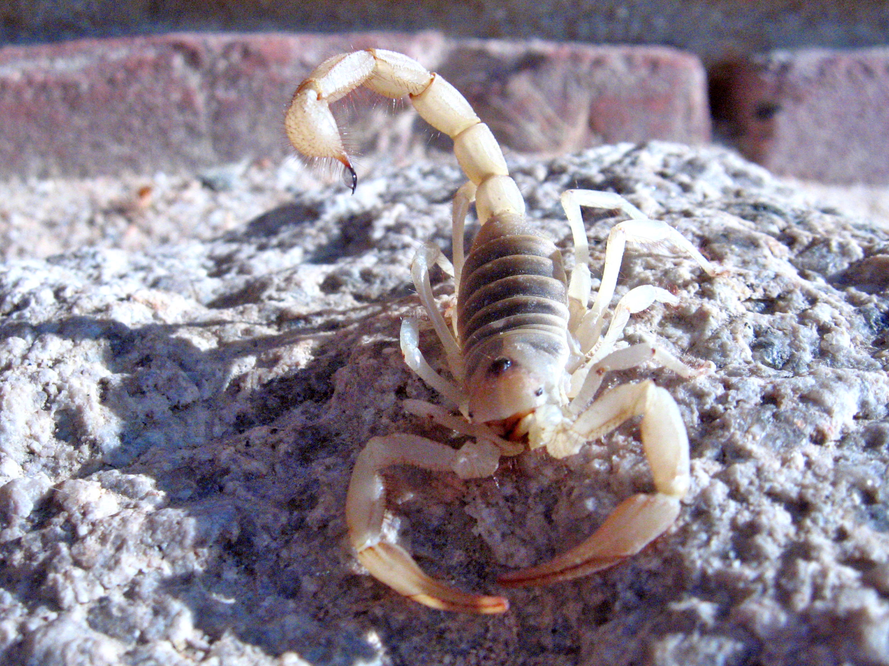 Invertebrates of Joshua Tree National Park: Giant hairy scorpion (Hadrurus arizonensis), Twentynine Palms, Ca 2813